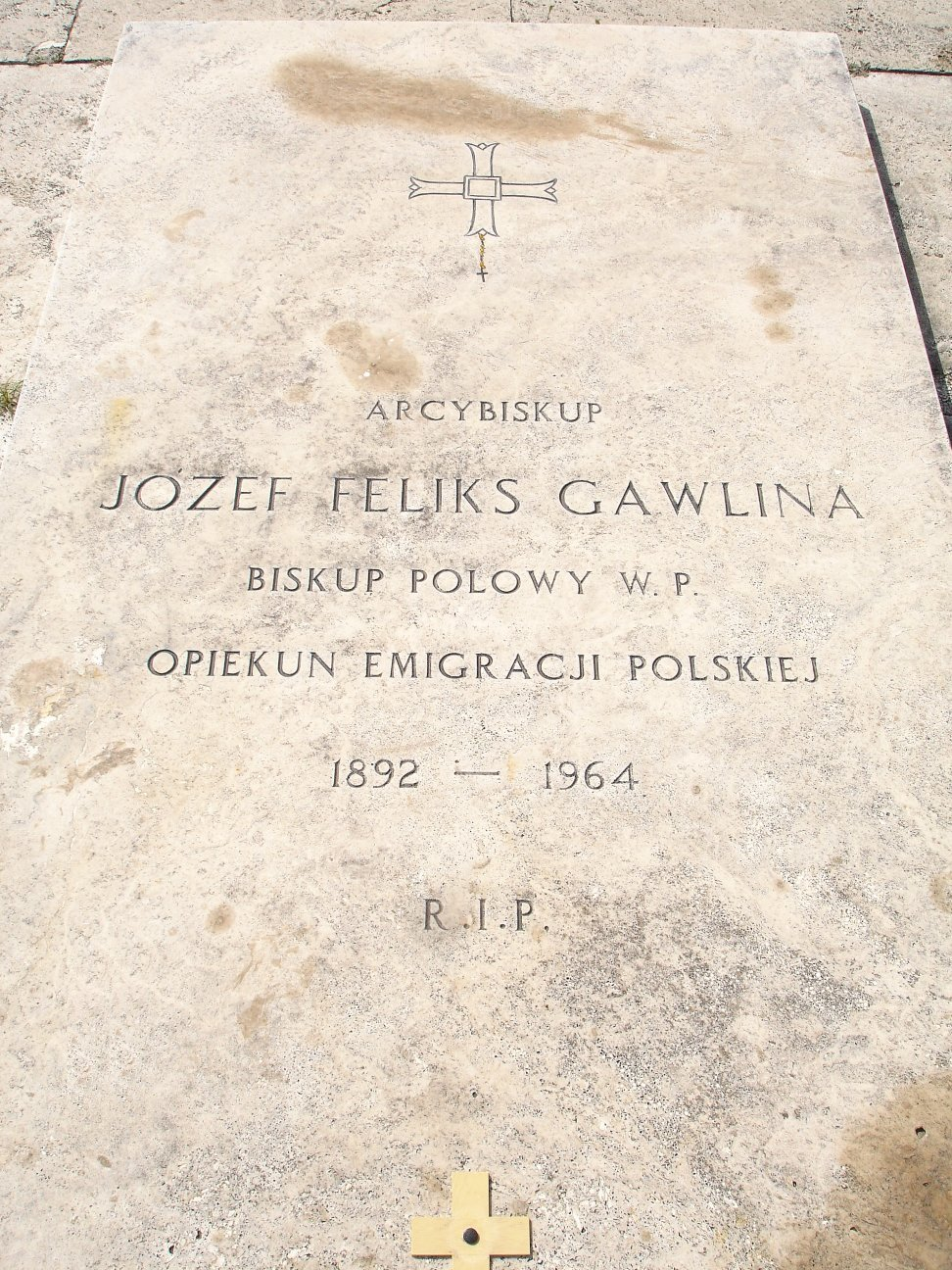 The tombstone of the archbishop Jozef Gawlina, on The Polish War Cemetery.